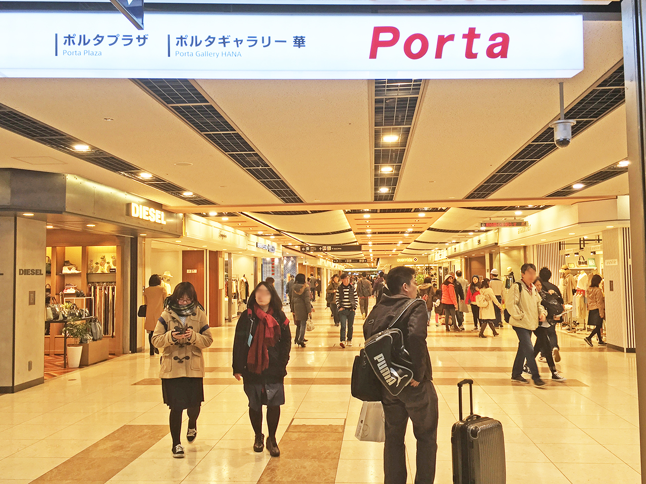 Porta underground mall